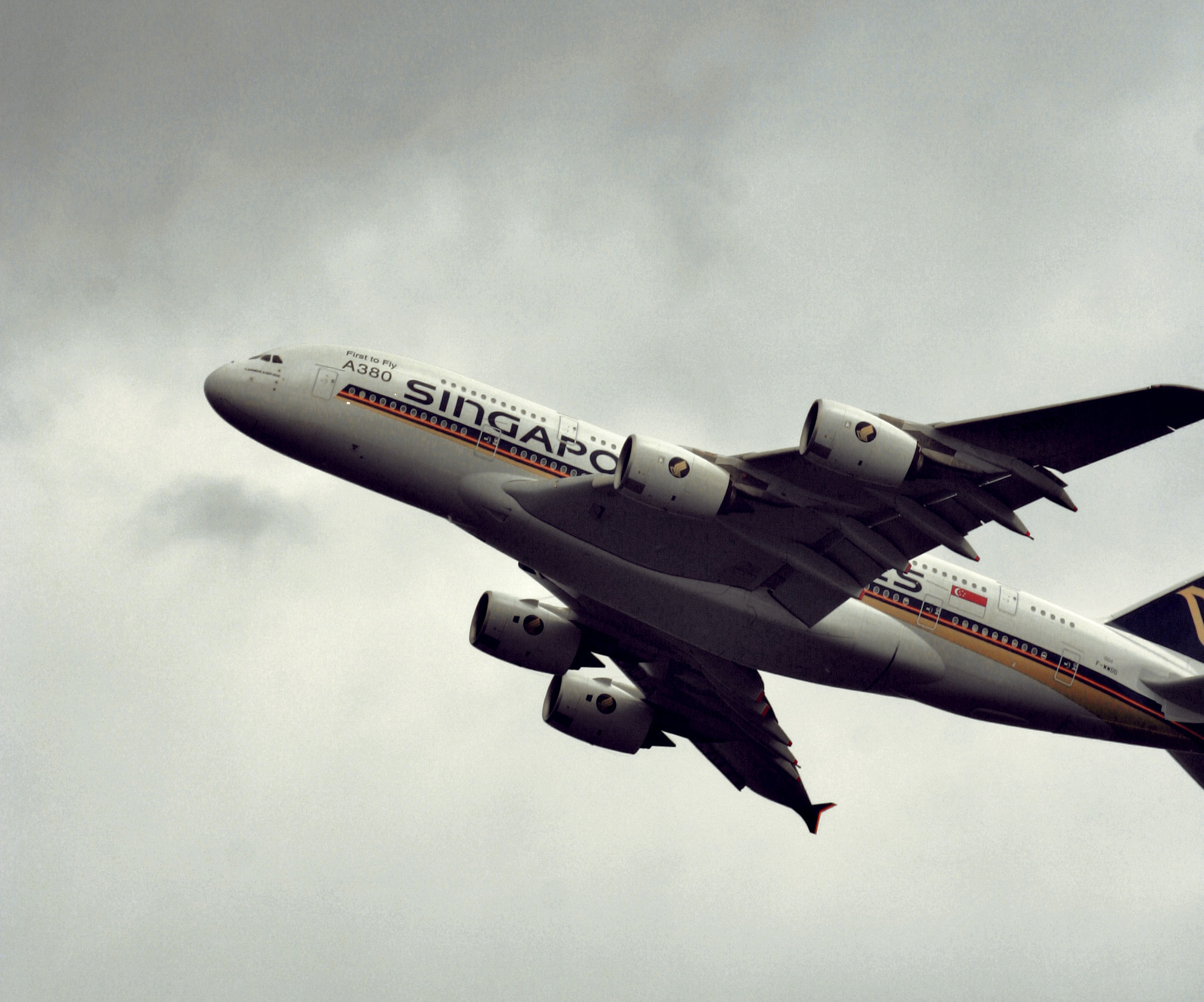 Airbus A380 featuring Singapore Airlines livery at Asian Aerospace 2006.